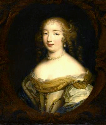 Portrait of Marguerite Louise d'Orleans (1645-1721) after an original painting from the Chateau d'Eu